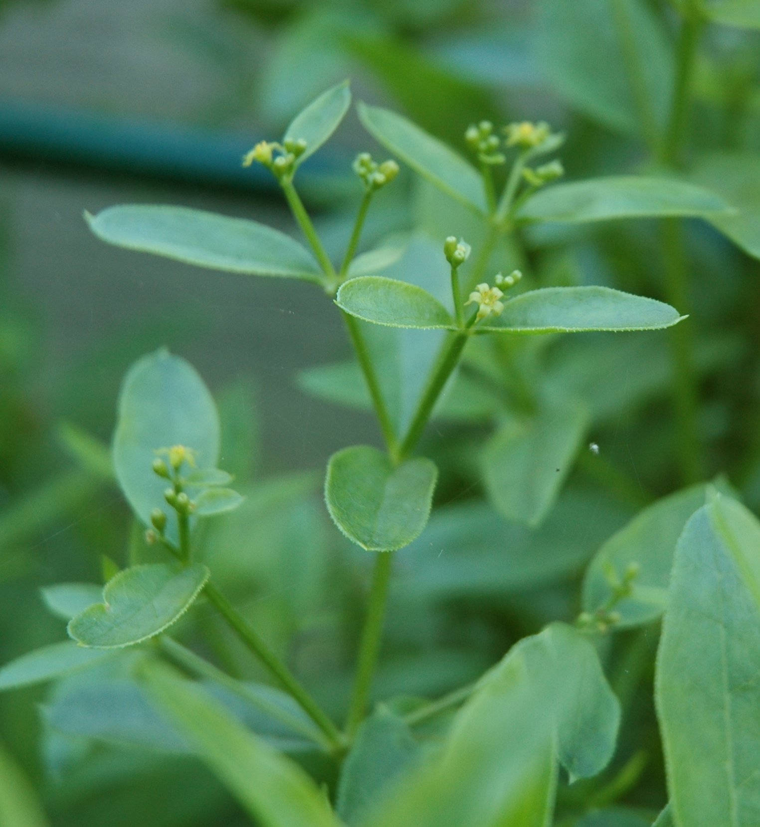 Flowers of Rubia tinctorum at Jena Botanical Garden, Germany